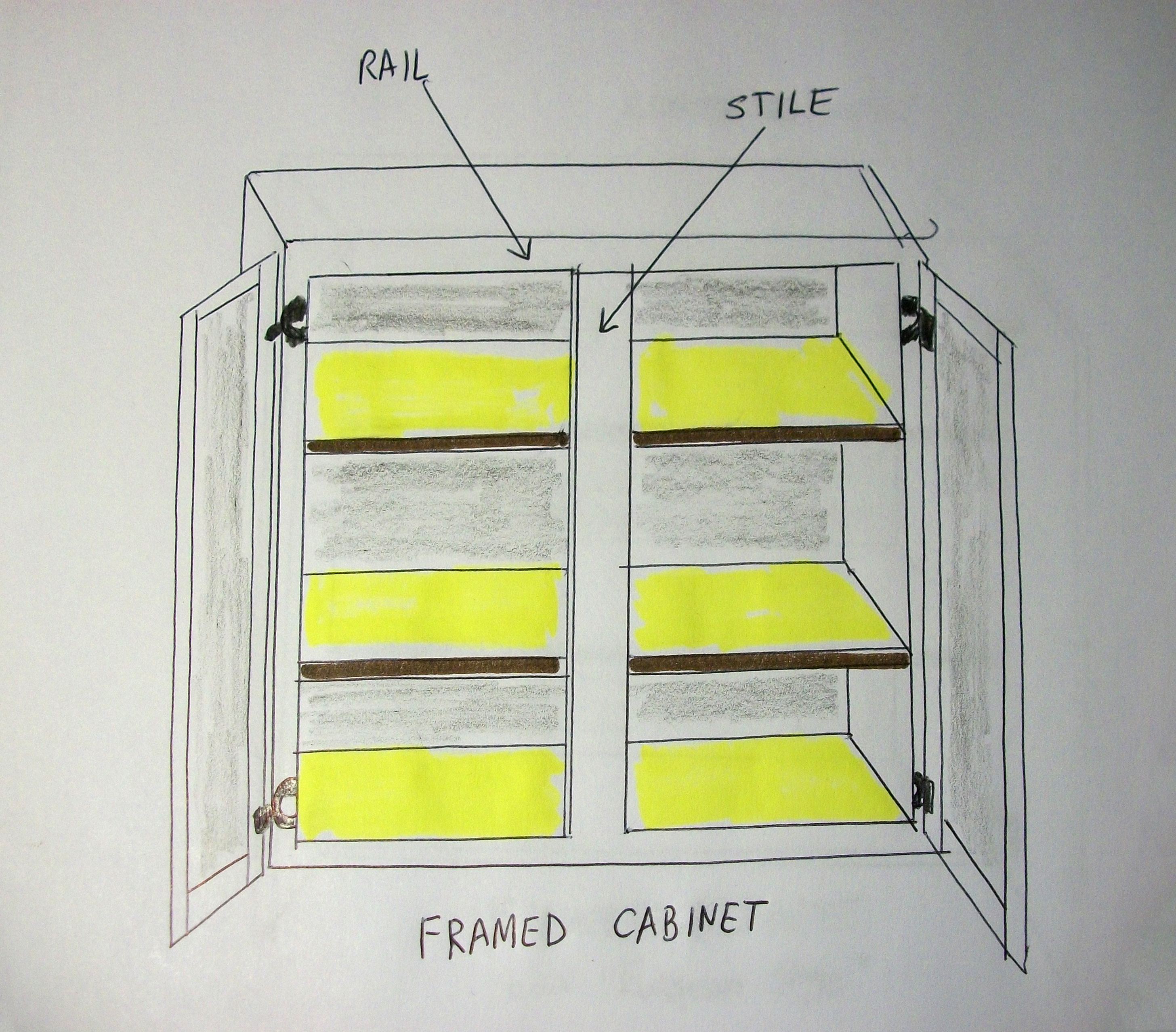 I drew a picture of framed cabinets. Then I took a photograph of the picture that I drew. It's for the Wikipedia article on kitchen cabinets.